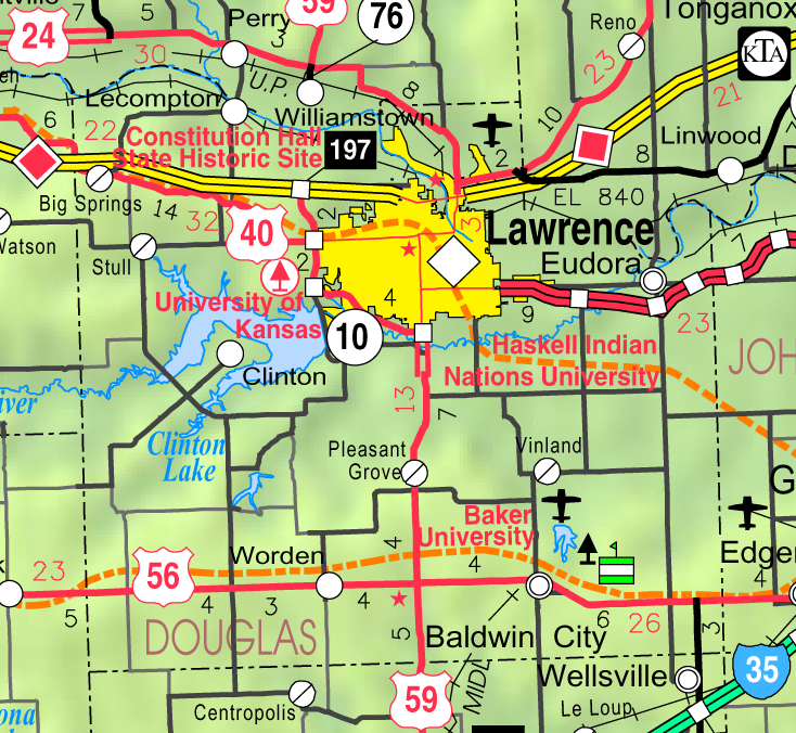 This map of Douglas County, Kansas, USA, is copied at a resolution of 300 pixels/inch from the original PDF file.